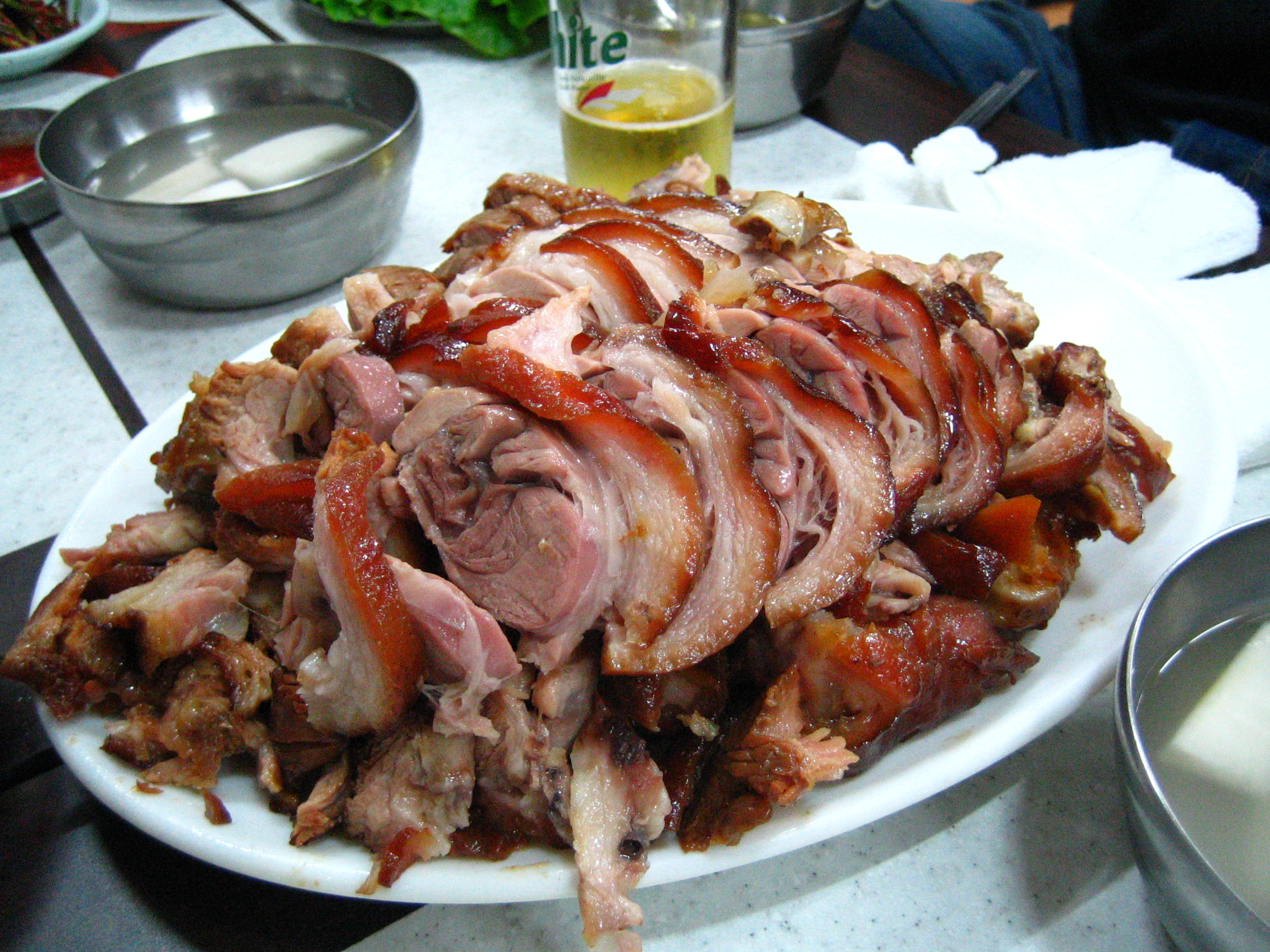 Jokbal, a Koran pork dish made from pig's leg and boiled in water. The dish is a popular for anju, assorted food for drink in Korea. It's similar to the einsbien of German cuisine.